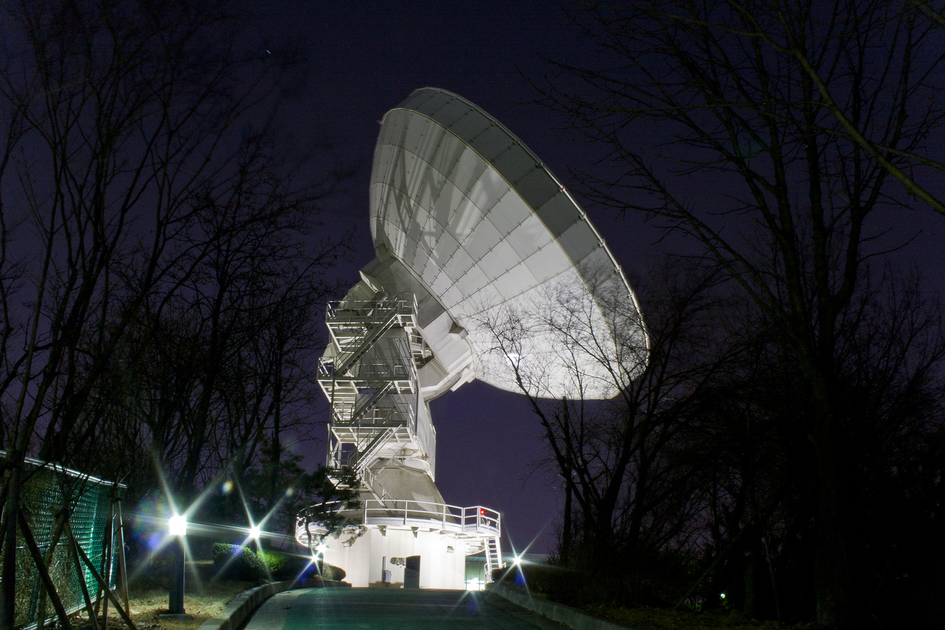 Radio observatory in Yonsei university at night